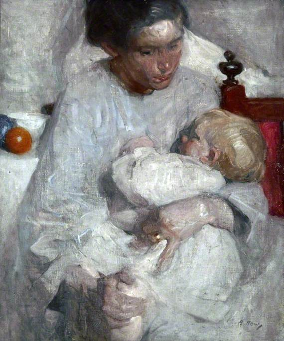 Maternité